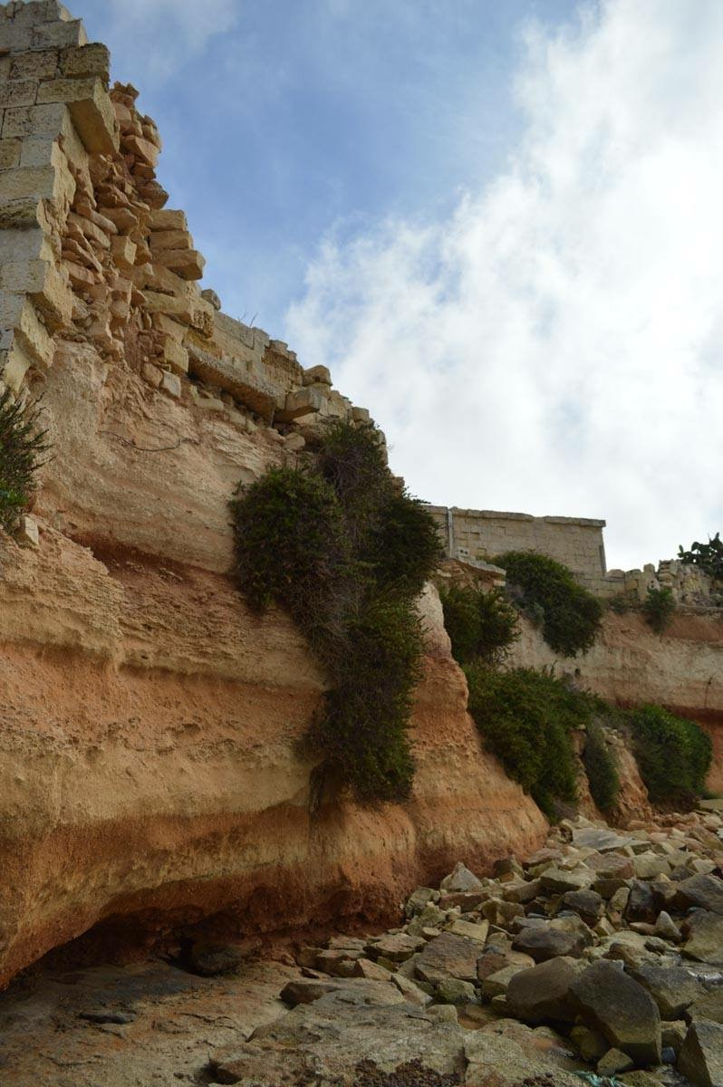 Marsascala battery